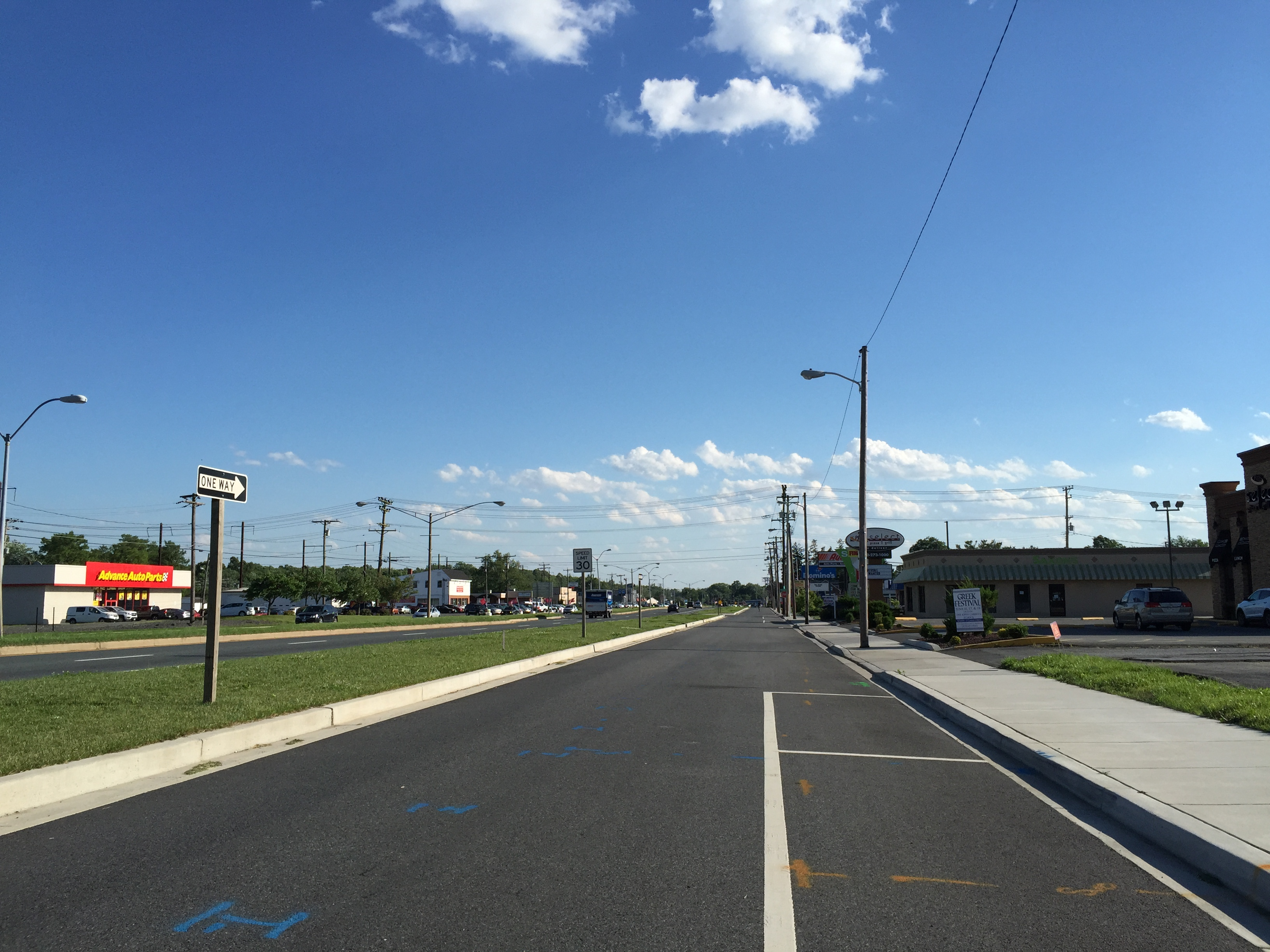 View west along Maryland State Route 740 (South Philadelphia Boulevard) at Market Street and U.S. Route 40 (Pulaski Highway) in Aberdeen, Harford County, Maryland